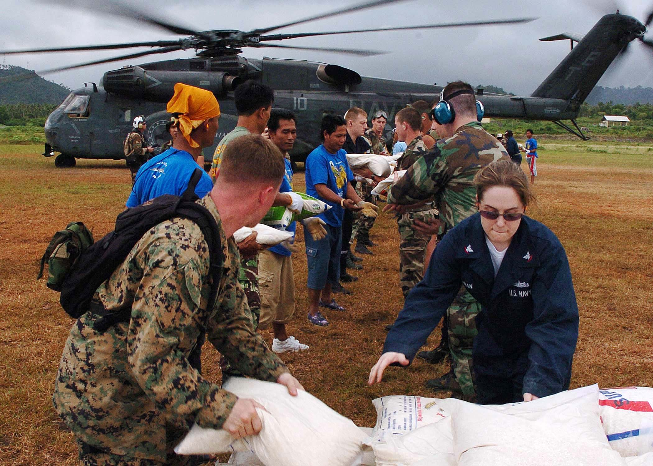 Sabang, Indonesia (Jan. 24, 2005) - Marine Cpl. Tyler Samms, and Fire Controlman 3rd Class Bethany A. Deadman pass bags of rice to fellow Sailors and Marines during a joint working party with foreign forces at an airfield in Sabang, Indonesia. Helicopters from helicopter Mine Countermeasures Squadron One Five (HM-15) and Helicopter Combat Support Squadron Five (HC-5) have been delivering supplies daily to areas devastated by the Tsunami that hit the region Dec. 26, 2004. USS Essex (LHD 2) is the flagship for the Essex Expeditionary Strike Group, currently deployed in the Indian Ocean in support of Operation Unified Assistance the humanitarian operation effort in the wake of the Tsunami that struck South East Asia. U.S. Navy photo by Photographer’s Mate Airman Stephanie Lynne Johnson (RELEASED)